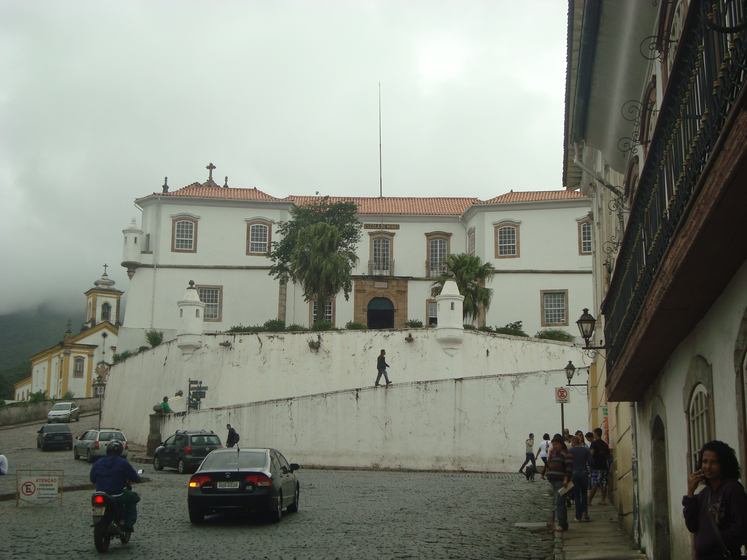 School of mines